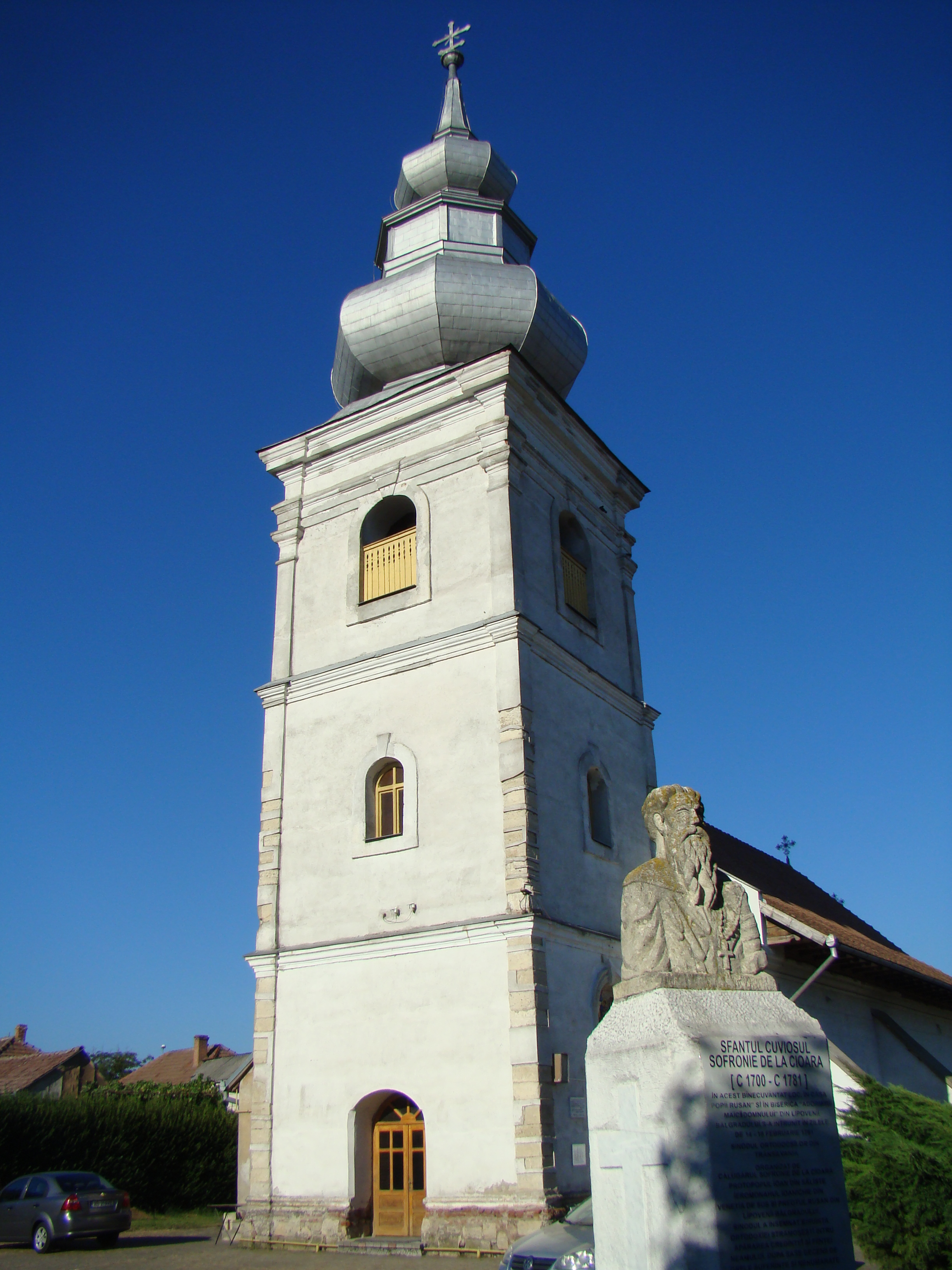 Church of the Dormition-Lipoveni in Alba Iulia, Alba county, Romania